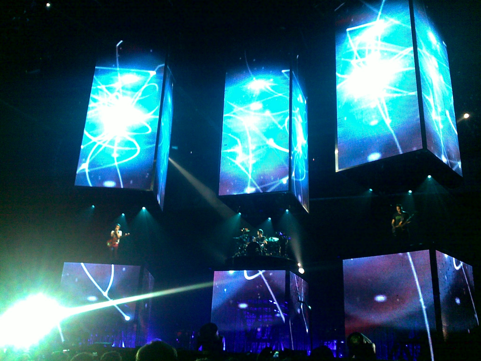 Muse in Rotterdam Nov 14th 2009